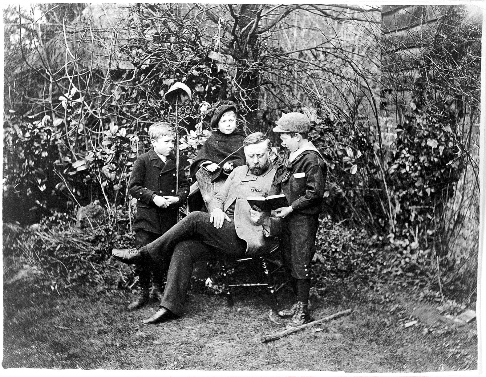 Sir Thomas Barlow seated, with his three sons. Archives & Manuscripts Keywords: Portraits; Thomas Barlow